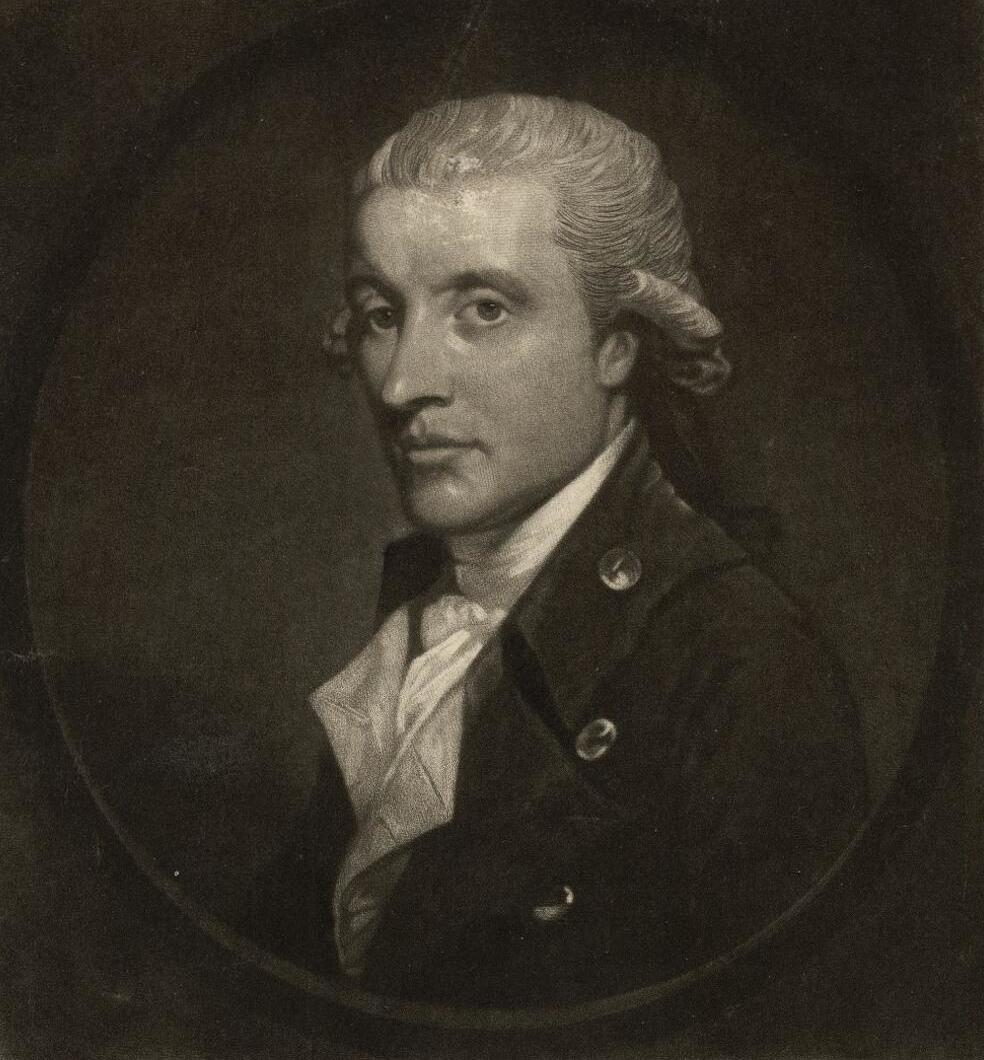 A portrait from the Welsh Portrait Collection at the National Library of Wales. Depicted person: Richard Earlom – British artist